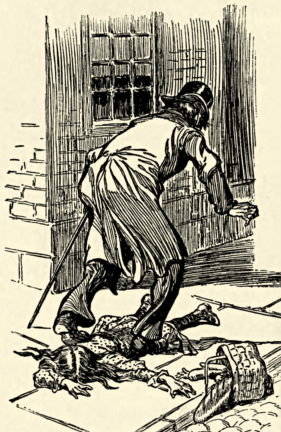 Artwork by Charles Raymond Macauley for the 1904 edition of The strange case of Dr. Jekyll and Mr. Hyde by Robert Louis Stevenson. Publisher: New York Scott-Thaw